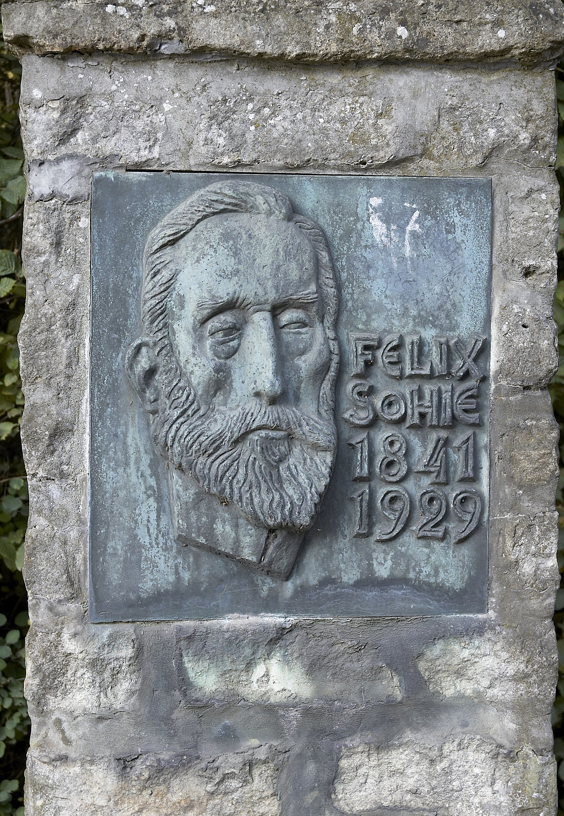 Relief of Felix Sohie (1841-1929) in front of the castle of Huldenberg, Belgium